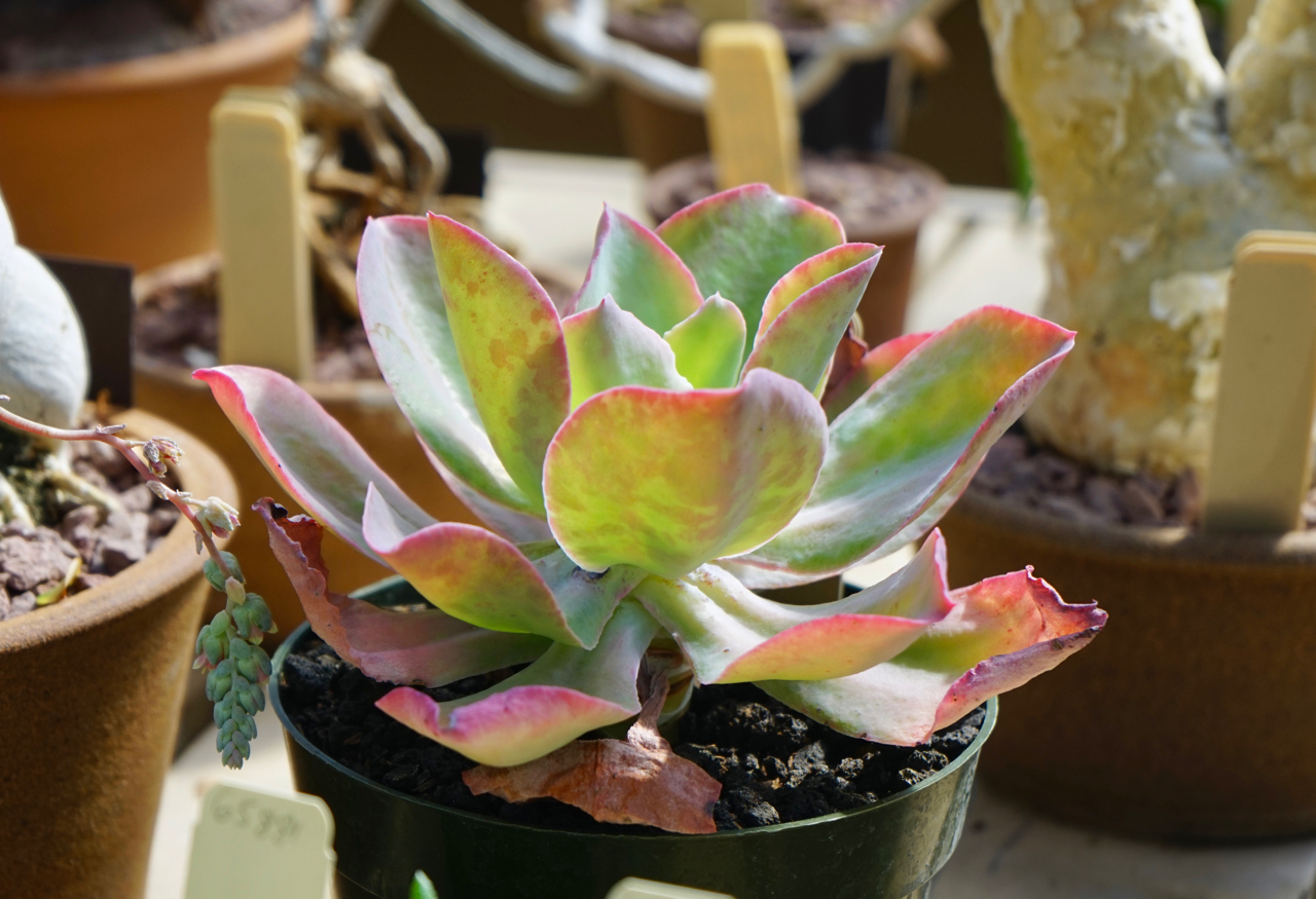 Photo taken in the desert conservatory of Huntington Botanical Gardens (San Marino, California, United States)